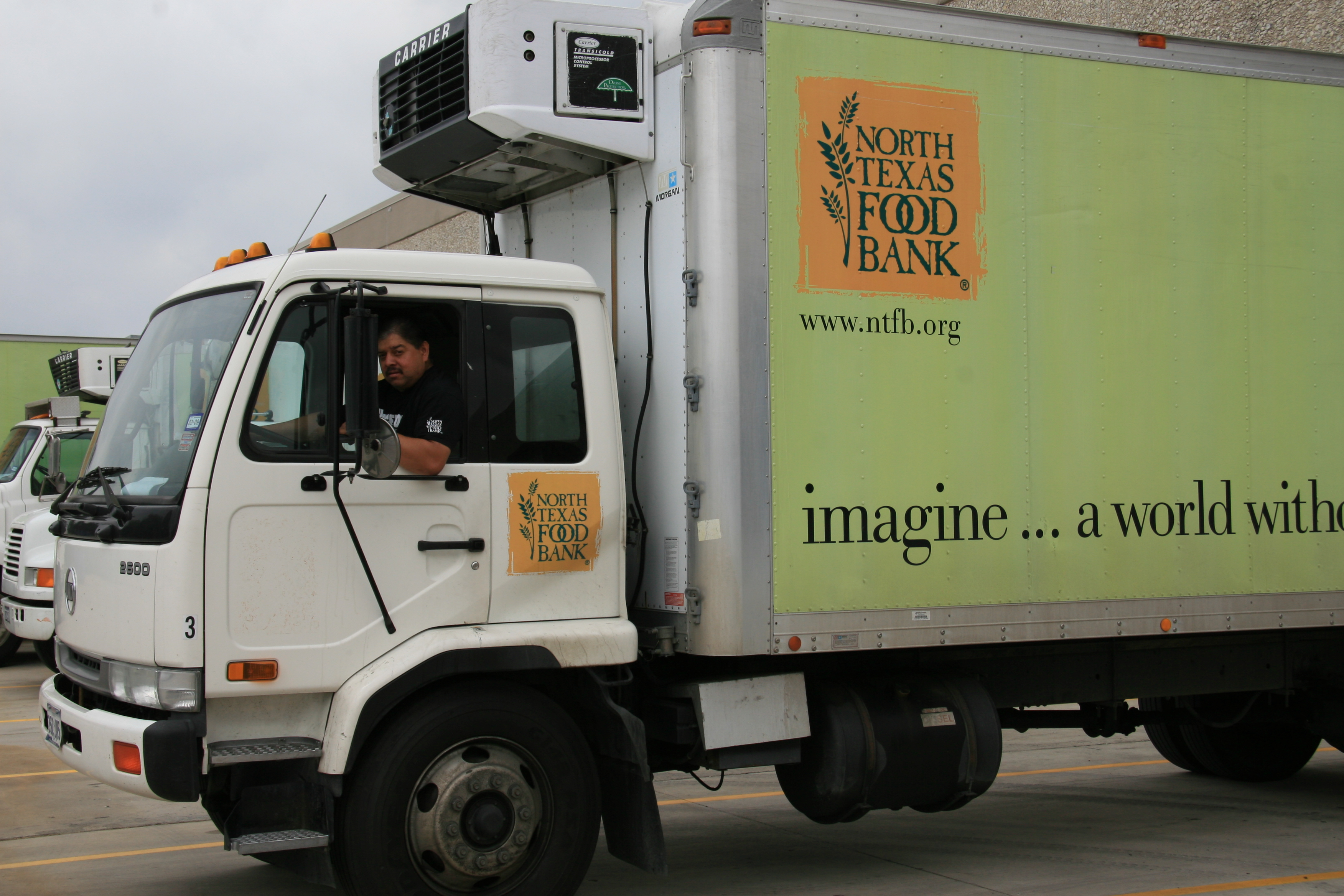 NTFB truck